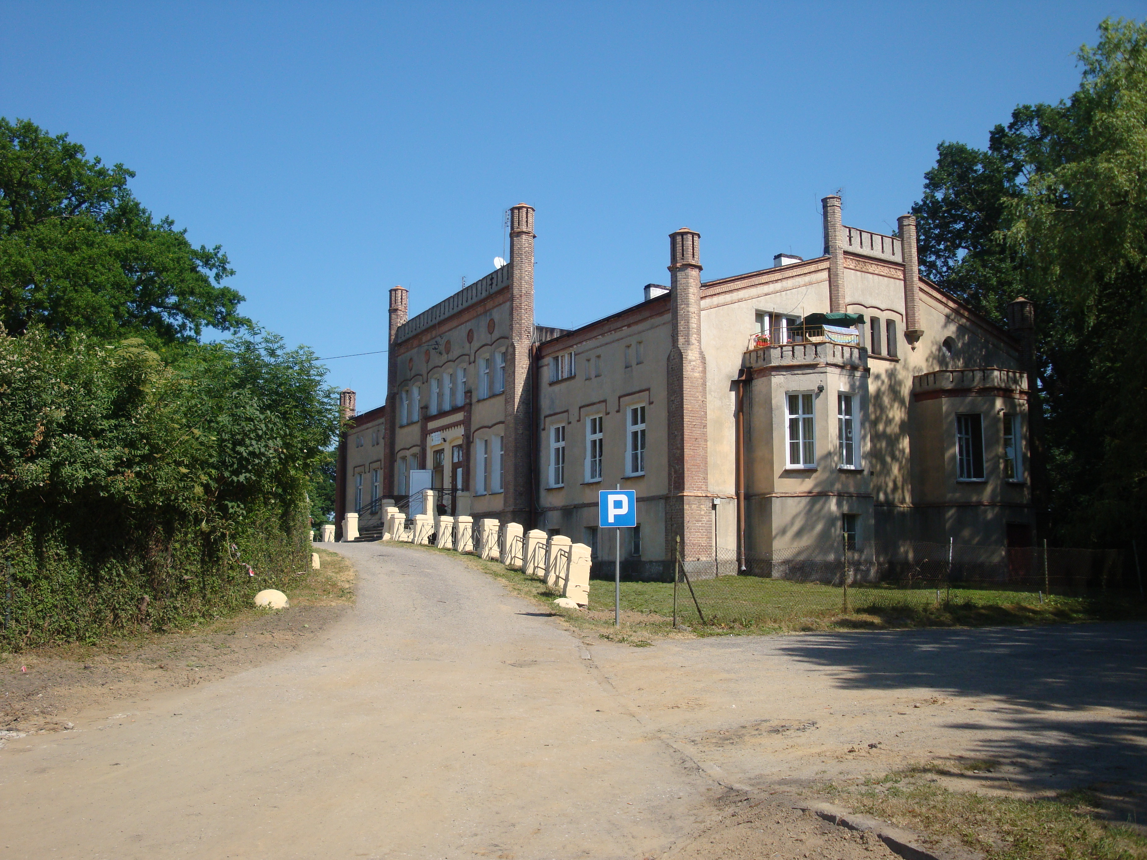 Celbowo-village in Gmina Puck, Poland. Palace of family Rodenacker